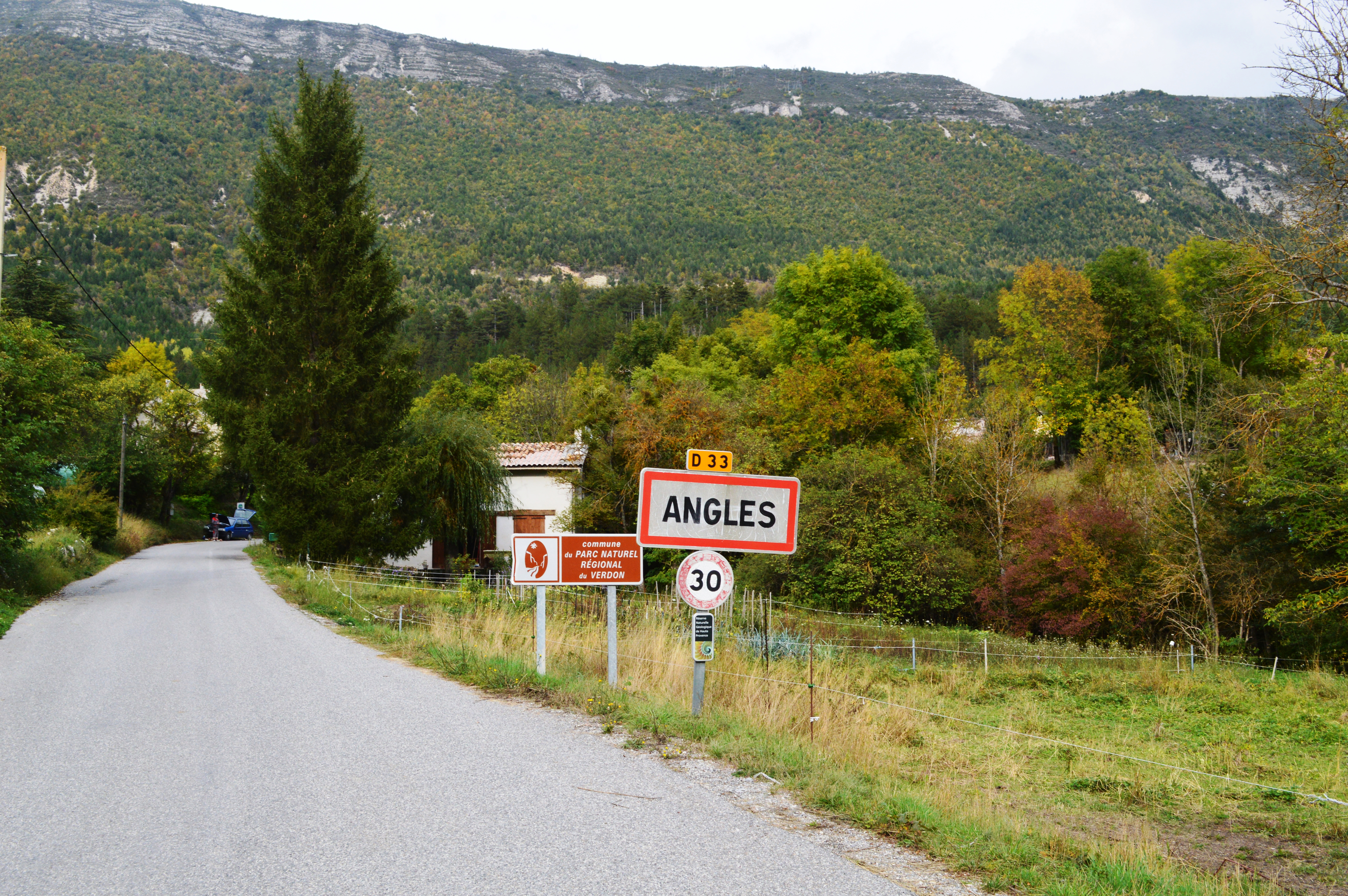 The entry to Angles